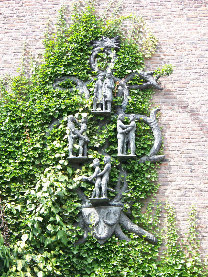 Bronze sculpture on outside wall of the town hall by Niel Steenbergen. In Oosterhout, North Brabant (Netherlands).